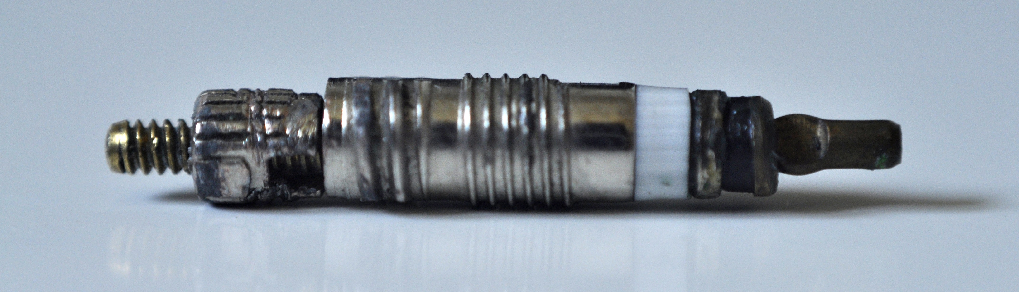 Sclaverand valve core